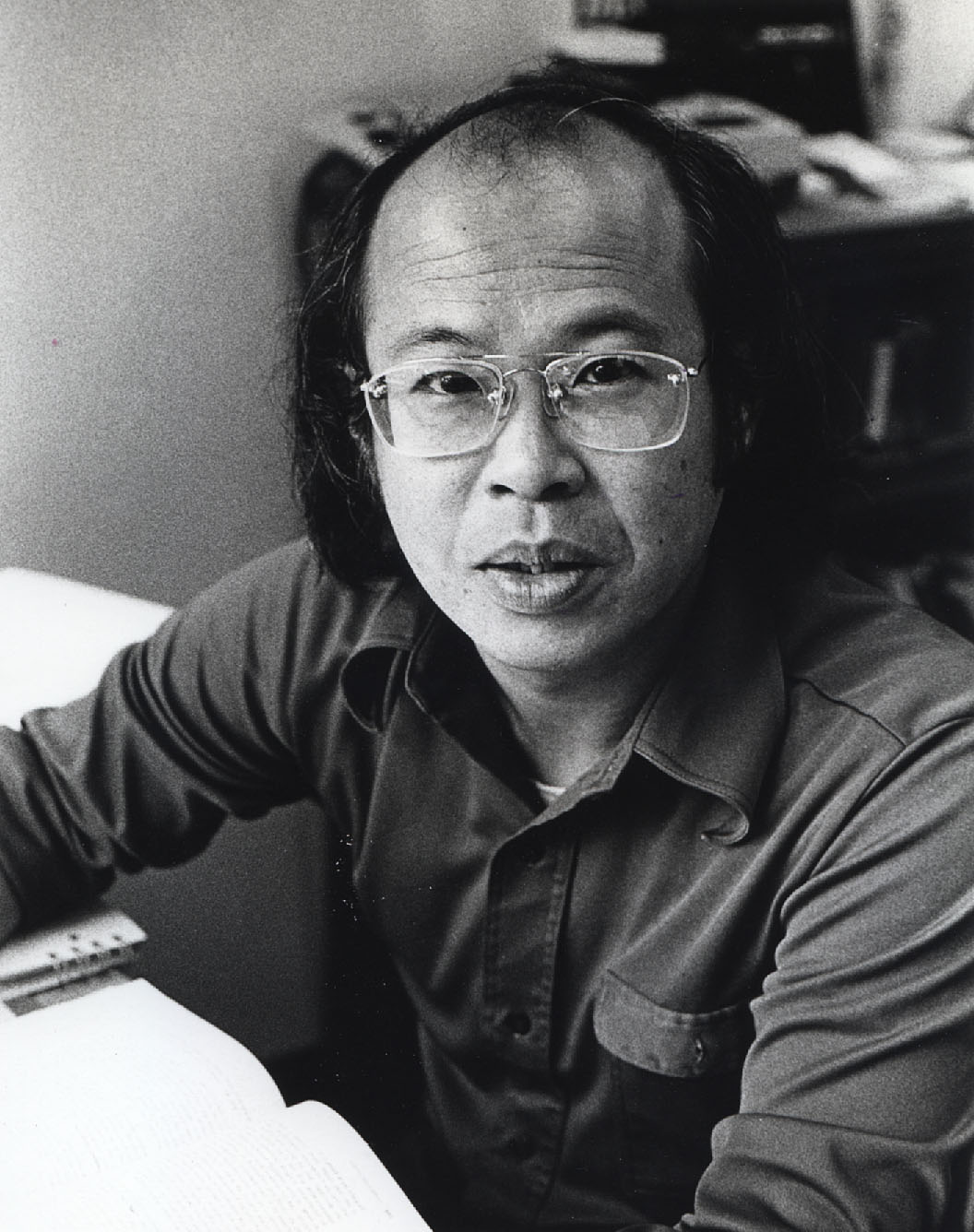 Jeffery Paul Chan, author of "Eat Everything Before You Die: A Chinaman in The Counterculture" 2004 novel. Photo by Nancy Wong 1975.